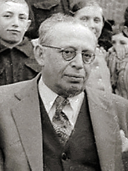 Abraham Silberschein (1882-1951) - Polish-Jewish lawyer, activist of the World Jewish Congress, Zionist, member of the Polish Sejm (1922–27). During the Holocaust he was a member of the Bernese Group also called as Ładoś Group, an informal cooperation of Jewish organizations and Polish diplomats who fabricated and smuggled illegal Latin American passports to occupied Poland, saving their holders and their families from immediate deportation to German Nazi death camps